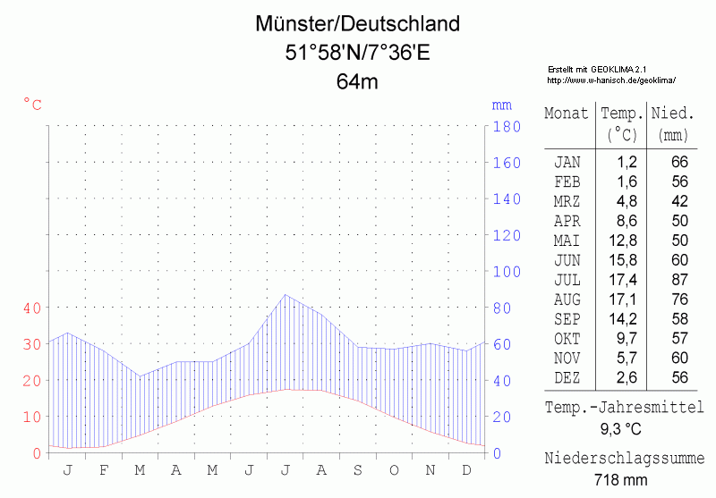 climate chart in the format by Walther and Lieth, metric, °Celsisus and millimeters, made with Geoklima 2.1